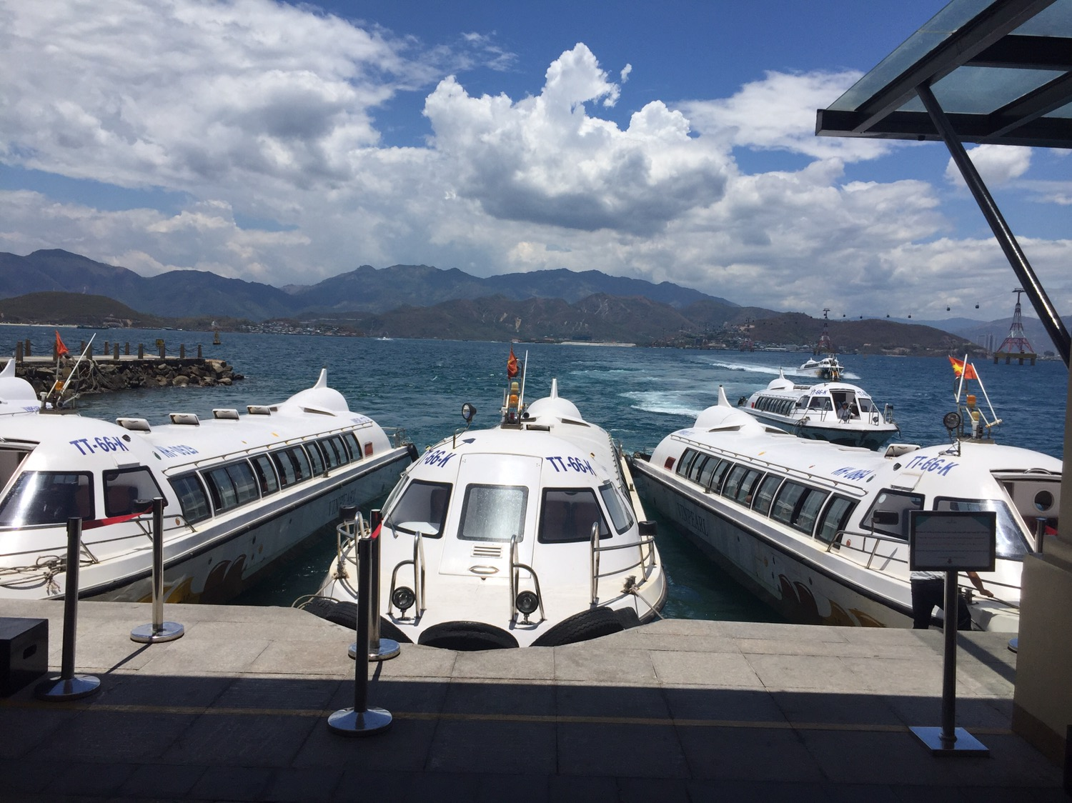 a speed boat on the Vinpearl wharf